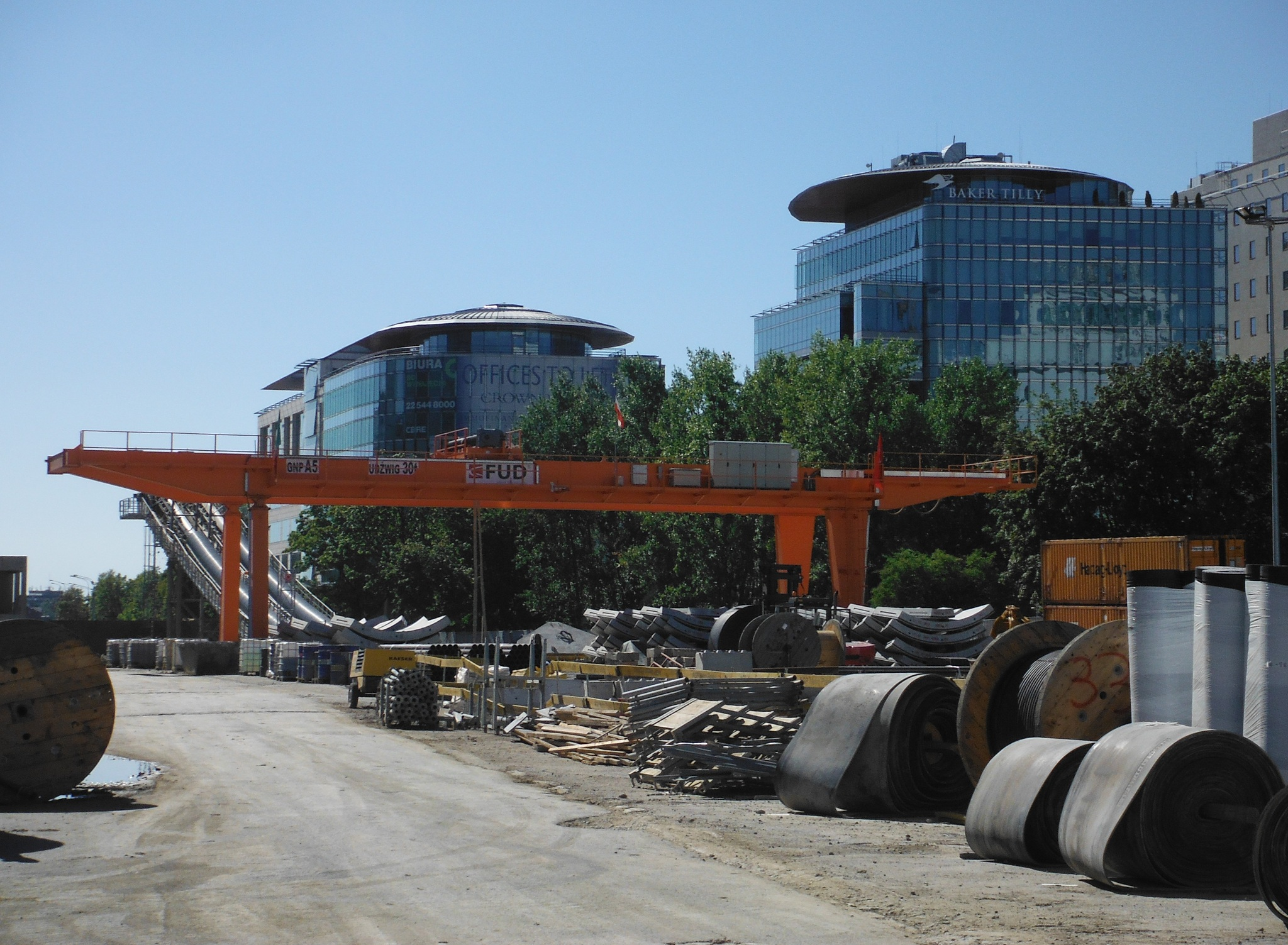 Rondo Daszyńskiego metro station (under construction) in Warsaw (3rd of August 2013)..